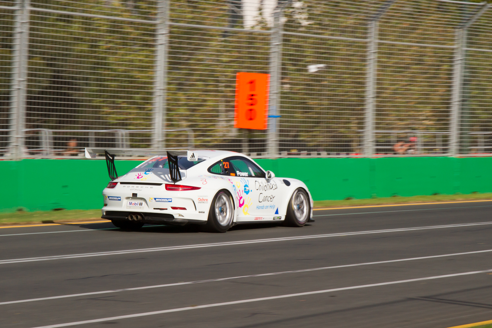 2014 Australian F1 Grand Prix